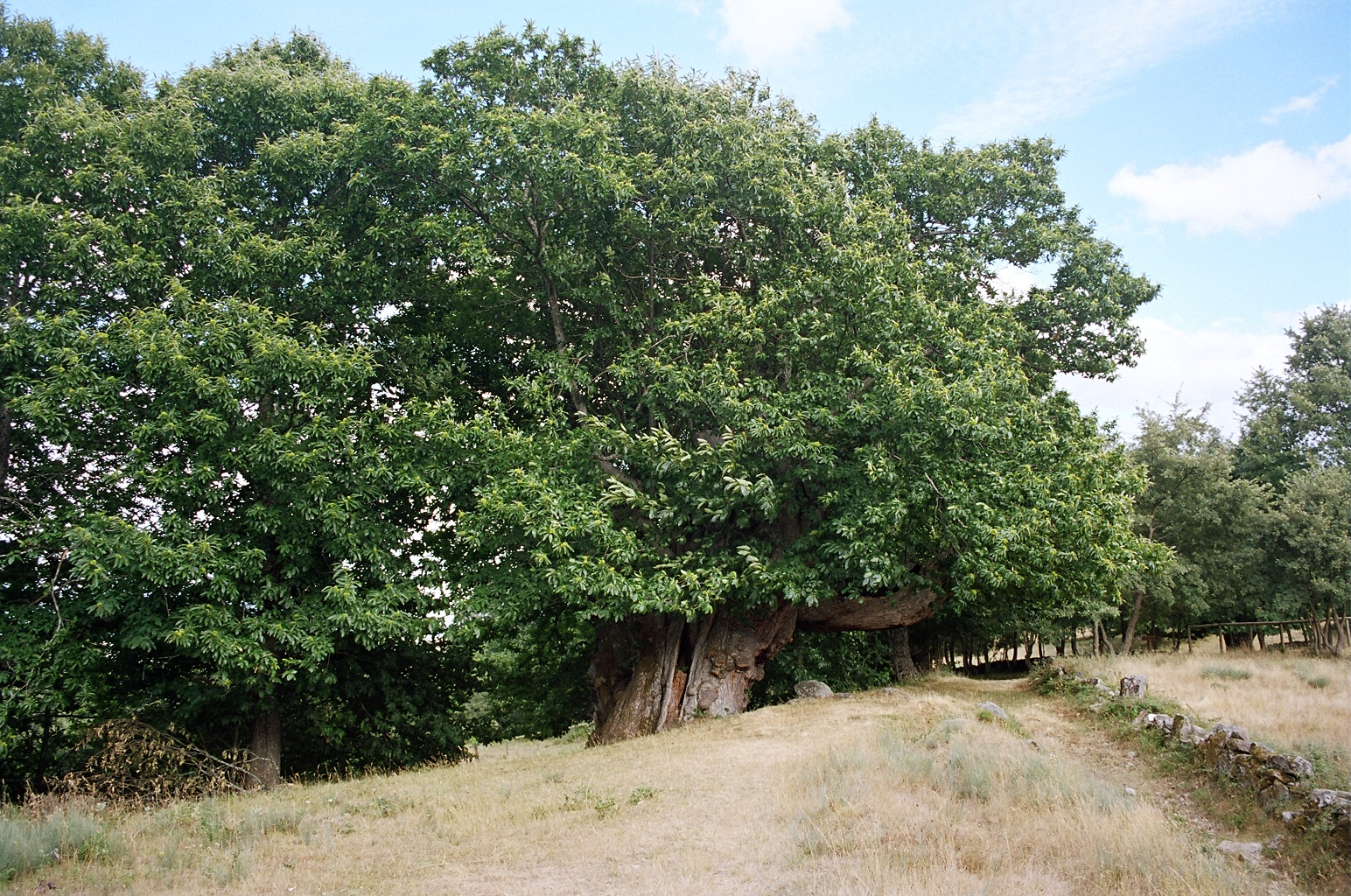 Chestnut tree of "Pumbariños" located in the forest called "Souto de Rozavales" in Manzaneda's municipality. It's the tree with the largest perimeter in Galicia (12 m). It's 500 years old